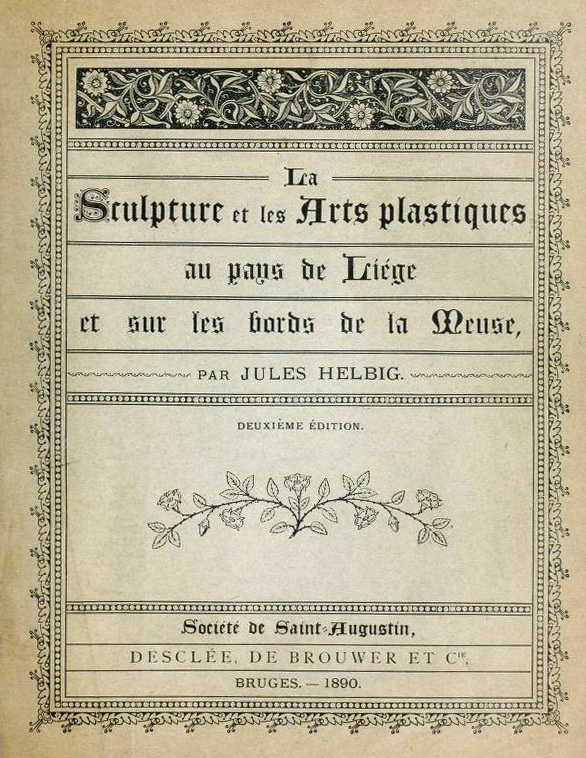 Title page of La sculpture et les art plastiques au pays de Liège et sur les bords de la Meuse by Jules Helbig (1890).